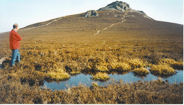 Heather Moorland and Peaty Pool on Bennachie. This is NW of the Mither Tap, a granite tor with prehistoric hillfort. This may also be the hill where the Battle of Mons Graupius was fought between Picts and Romans.